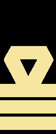 Chief mate epaulette